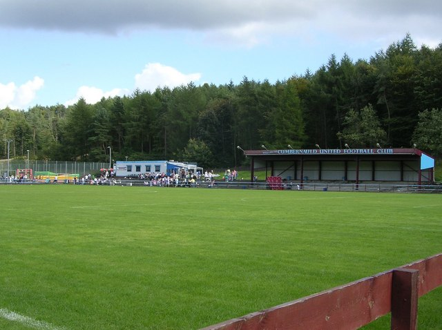 Cumbernauld United Football Club.